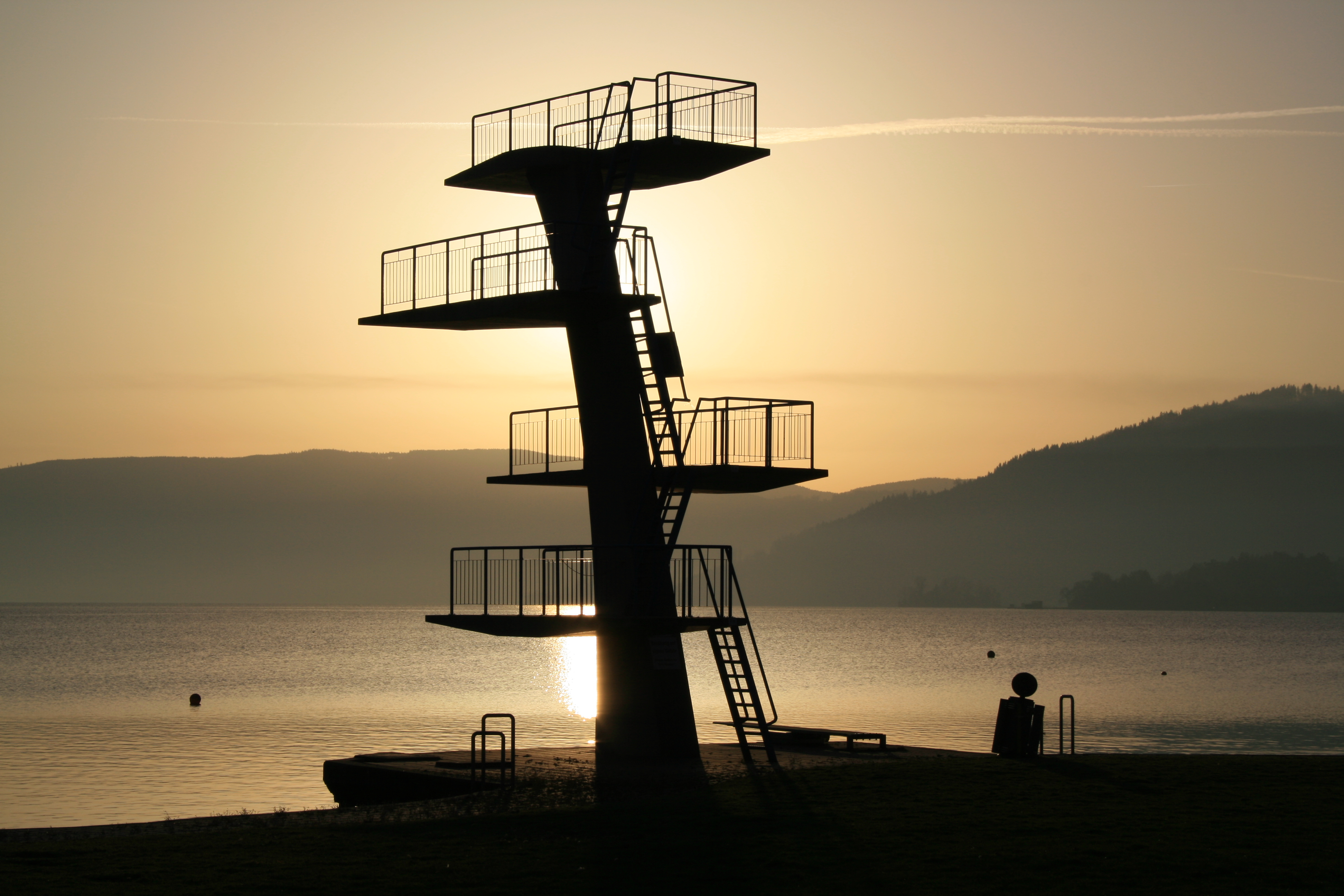 Diving platform from lido Seewalchen (Austria)